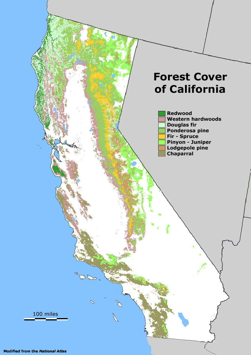 Forest Cover Map of California